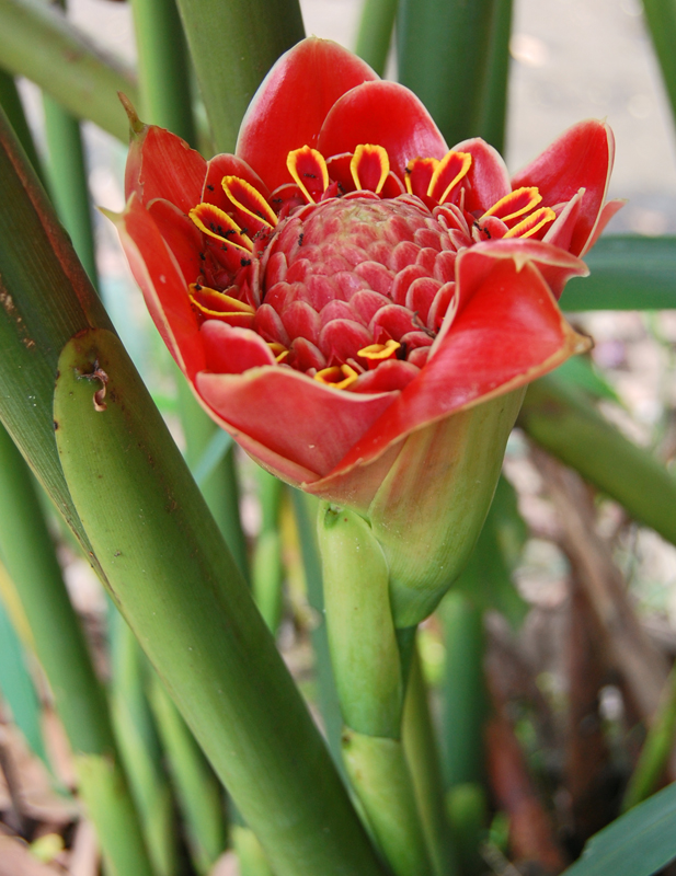 Torch ginger Etlingera hemisphaerica, recently open flower. Darmaga, Bogor, West Java.